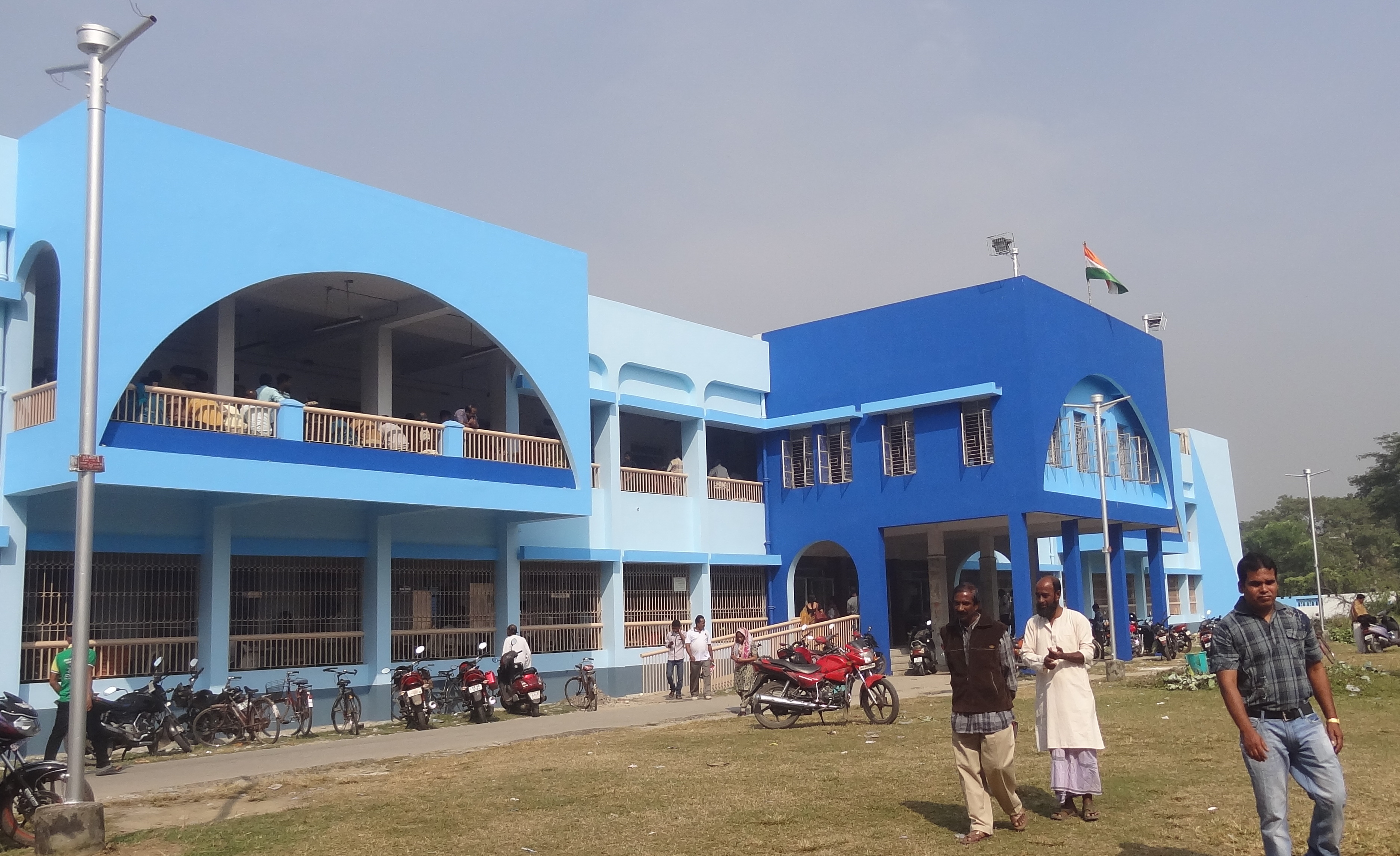 Kalyani Court, West Bengal